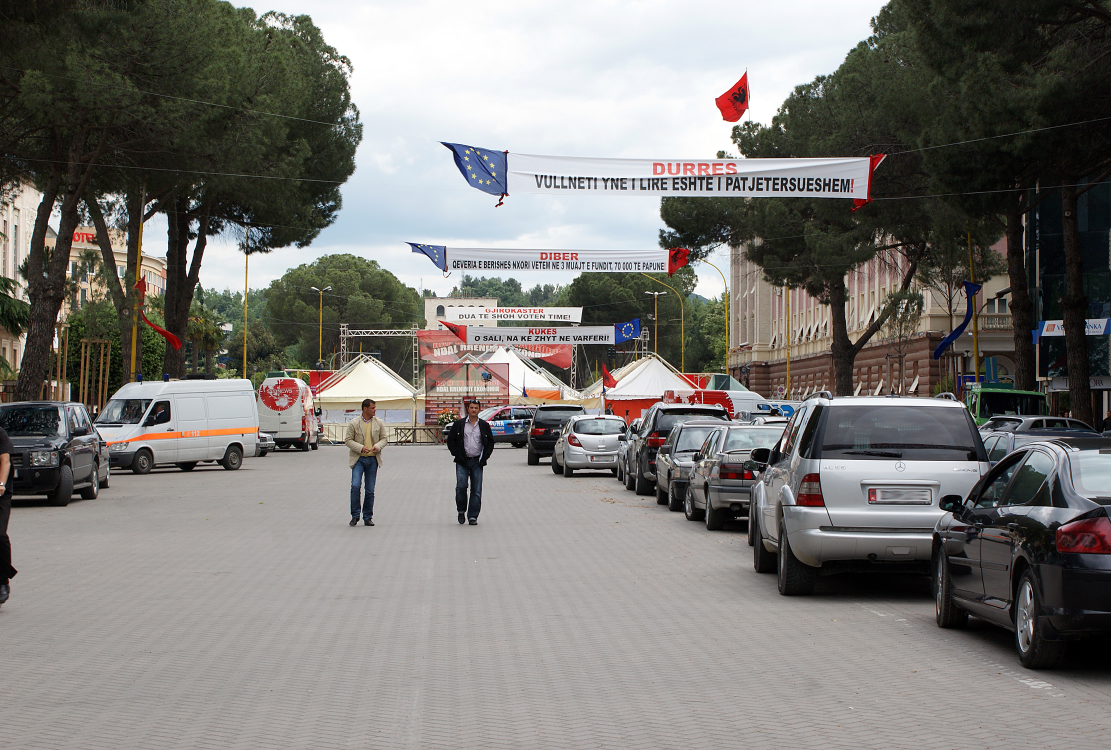 Protest of Socialist Party in Tirana in May 2010: camp of protesters during hunger strike on Bulvard Dëshmoret e Kombit in front of Government offices